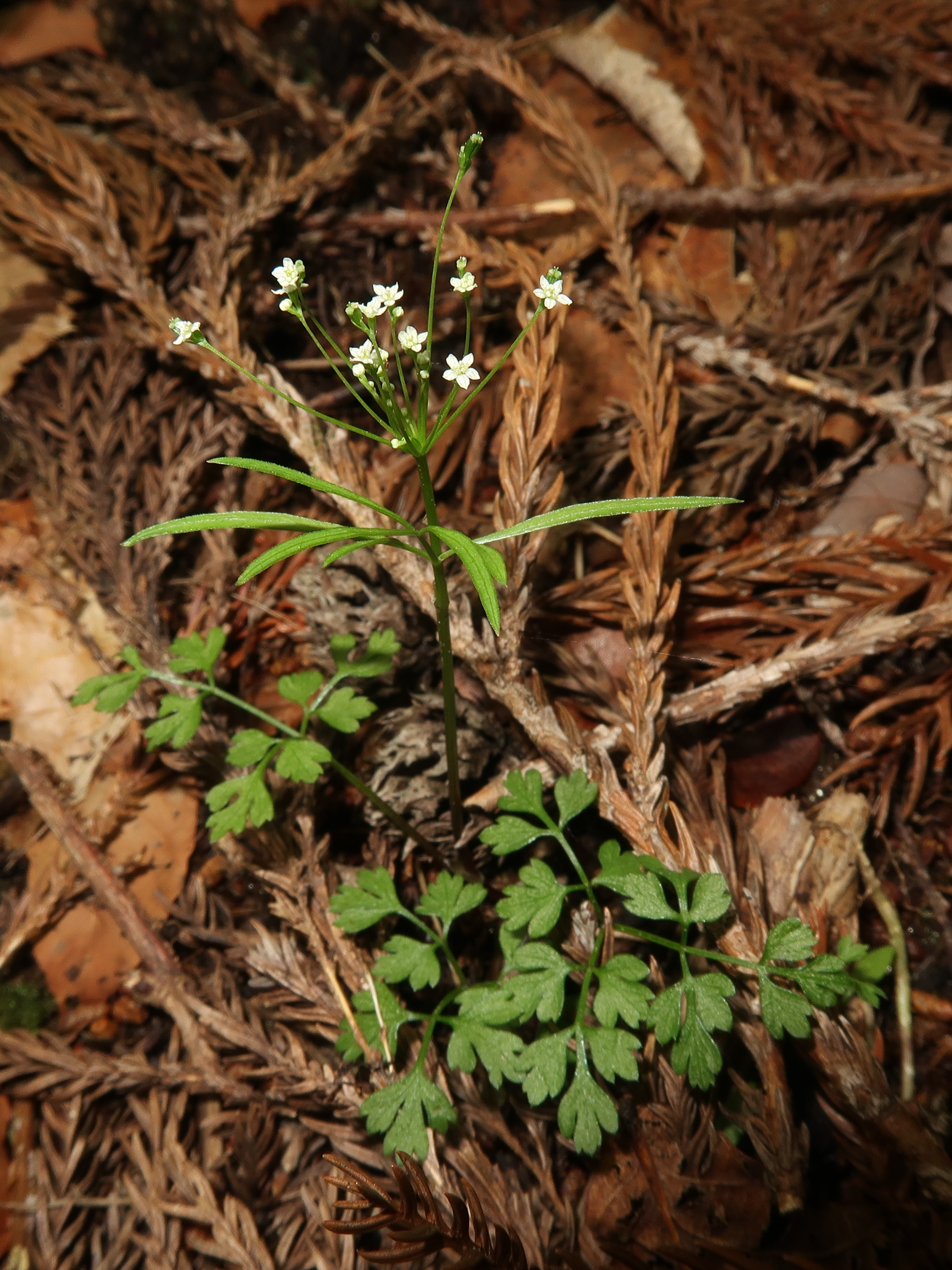 Pternopetalum tanakae, north area, Ibaraki pref., Japan